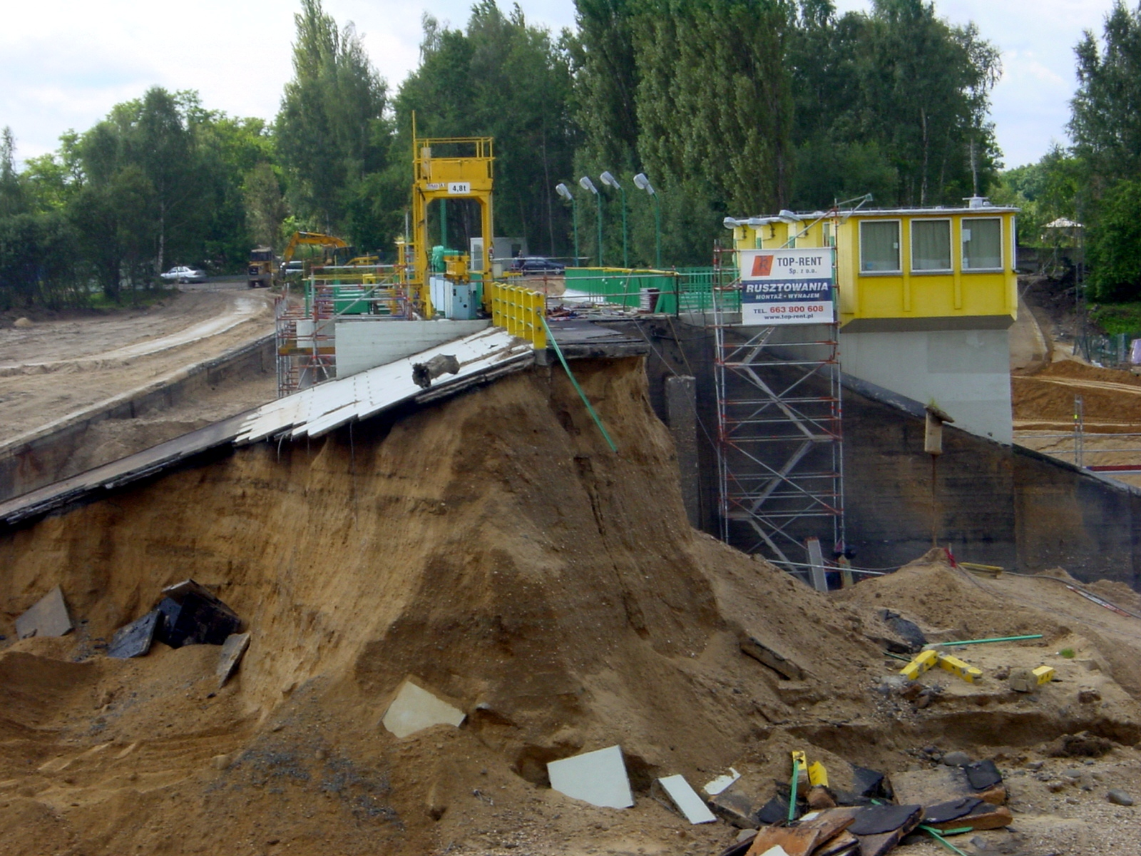 Witka dam, Poland, collapsed on August 7, 2010